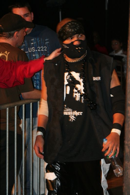 Professional wrestler B-Boy (real name Benjamin Cuntapay) at a Jersey All Pro Wrestling show on November 15, 2008.